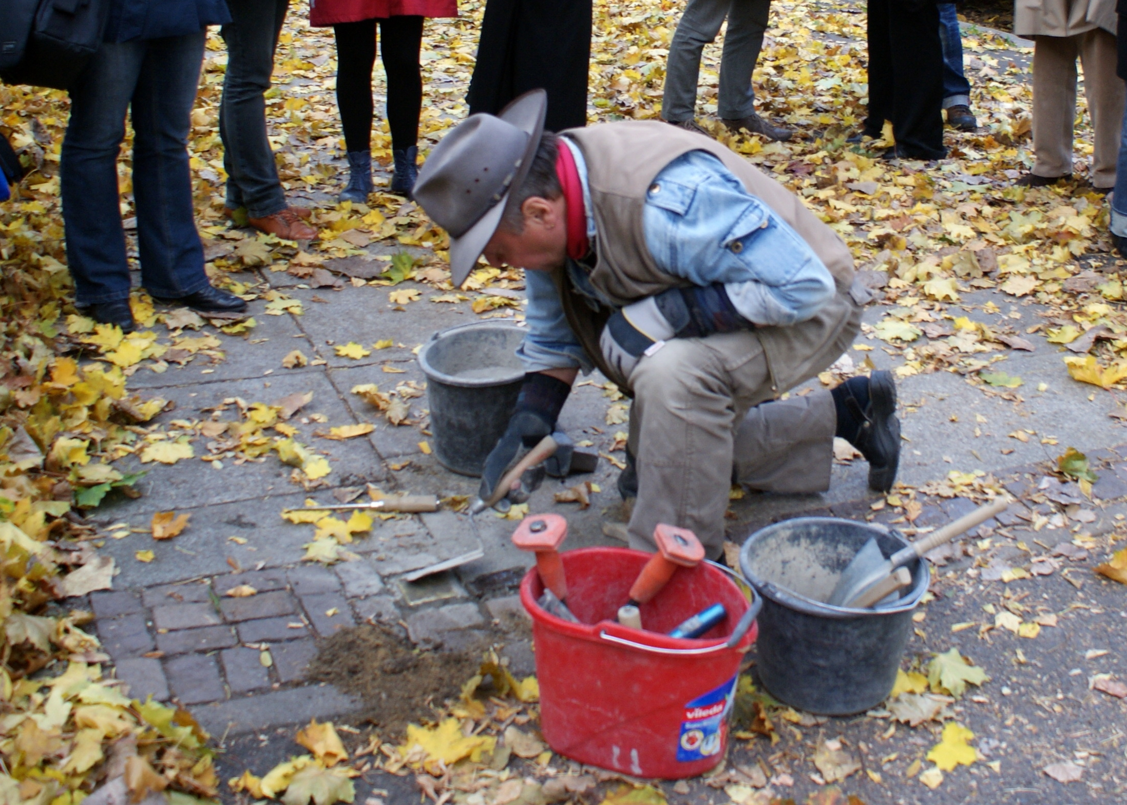 Artist Gunter Demnig places an new stumbling block (Stolperstein) for Gertrud Hille in Dresden, Uhlandstr. 34